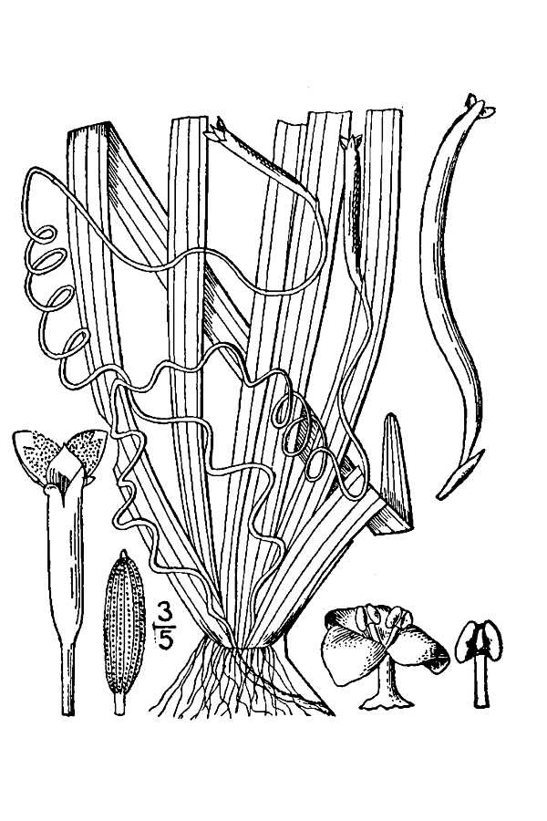 Vallisneria spiralis